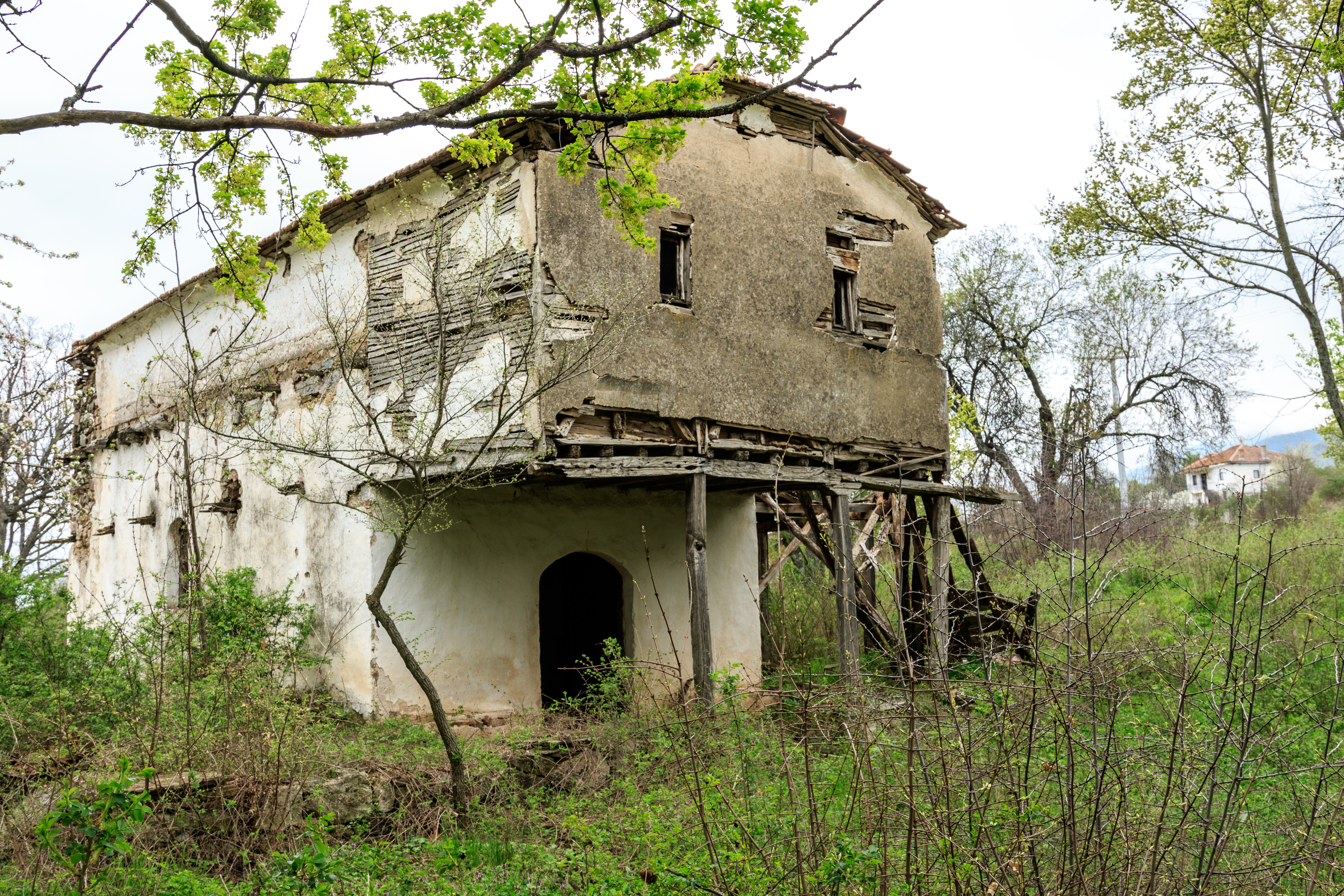 Old ruined St. Theodore of Amasea Church in the village Piperovo